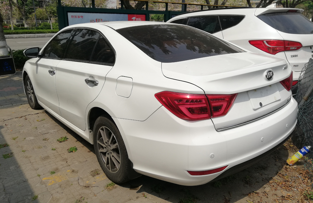 Lifan 820 photographed in Guangzhou, Guangdong province, China.